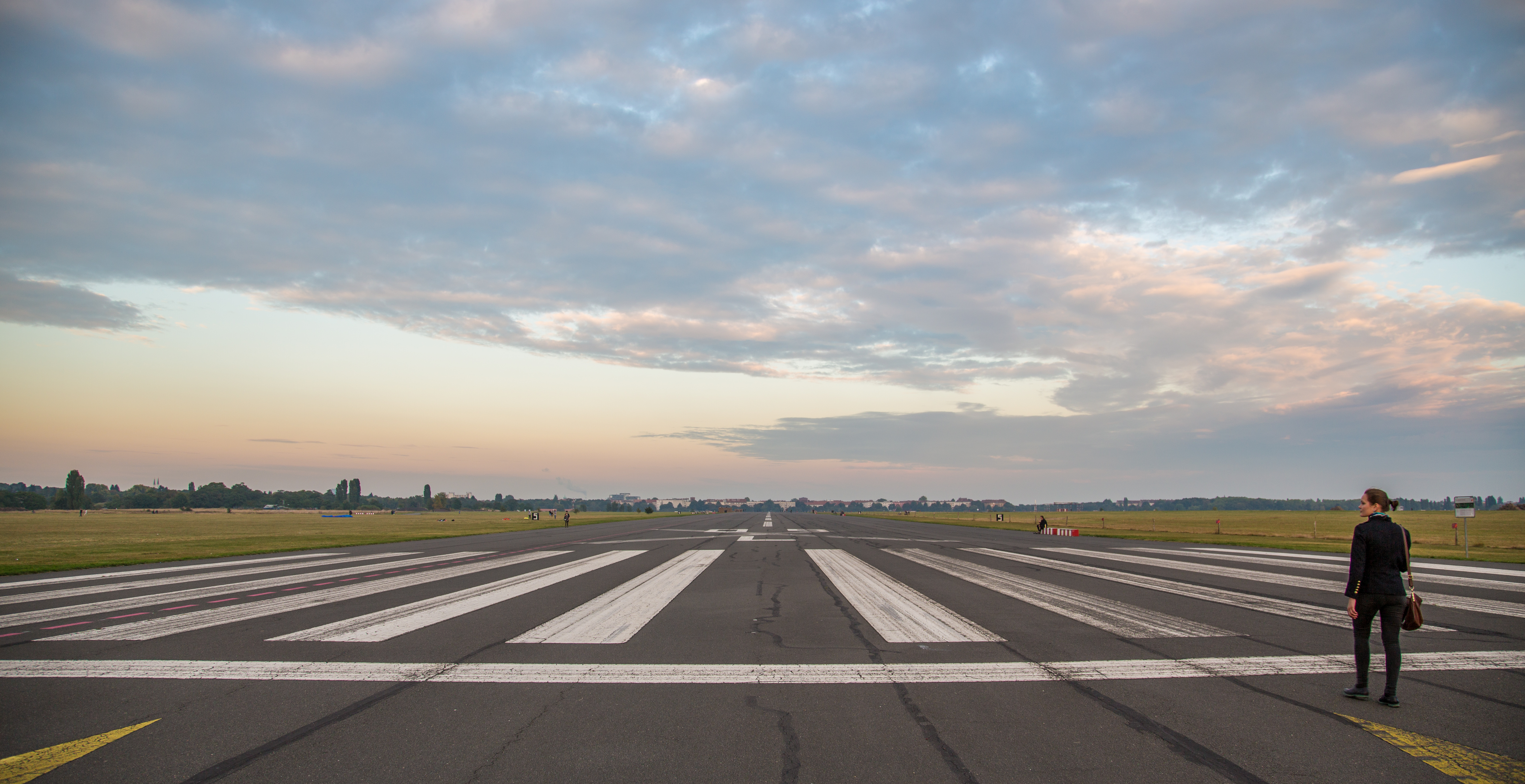 Berlin, Germany.